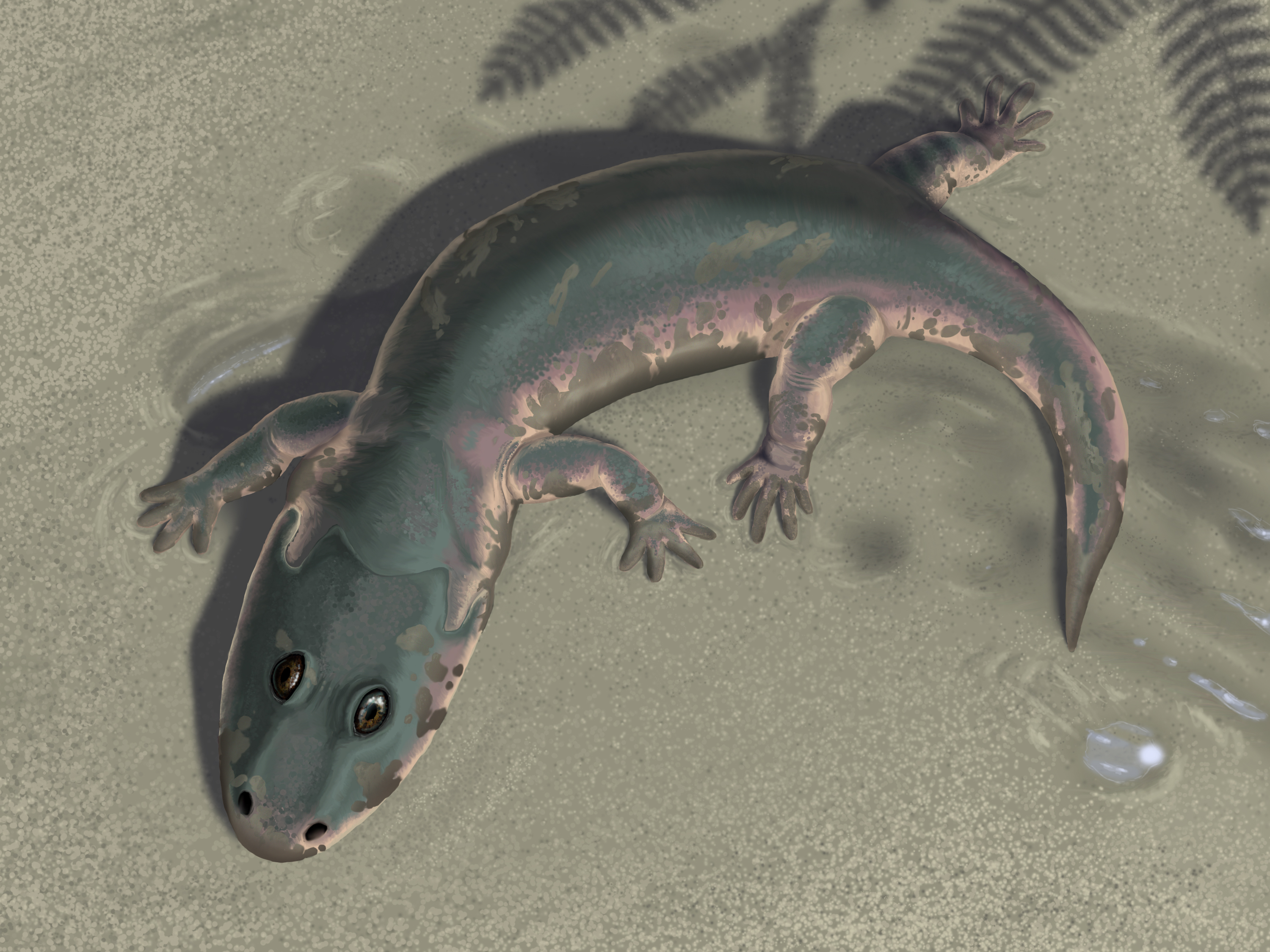 Life restoration of Cryobatrachus kitchingi. Based on Figures 14 and 15 of "Labyrinthodont amphibians from Antarctica" by Edwin H. Colbert and John W. Cosgriff (American Museum Novitates 2552: 1-30). Plant shadows represent Dicroidium zuberi, based on figures in "Dicroidium diversity in the Upper Triassic of north Victoria Land, East Antarctica" by Benjamin Bomﬂeur and Hans Kerp (Review of Palaeobotany and Palynology 160: 67-110).